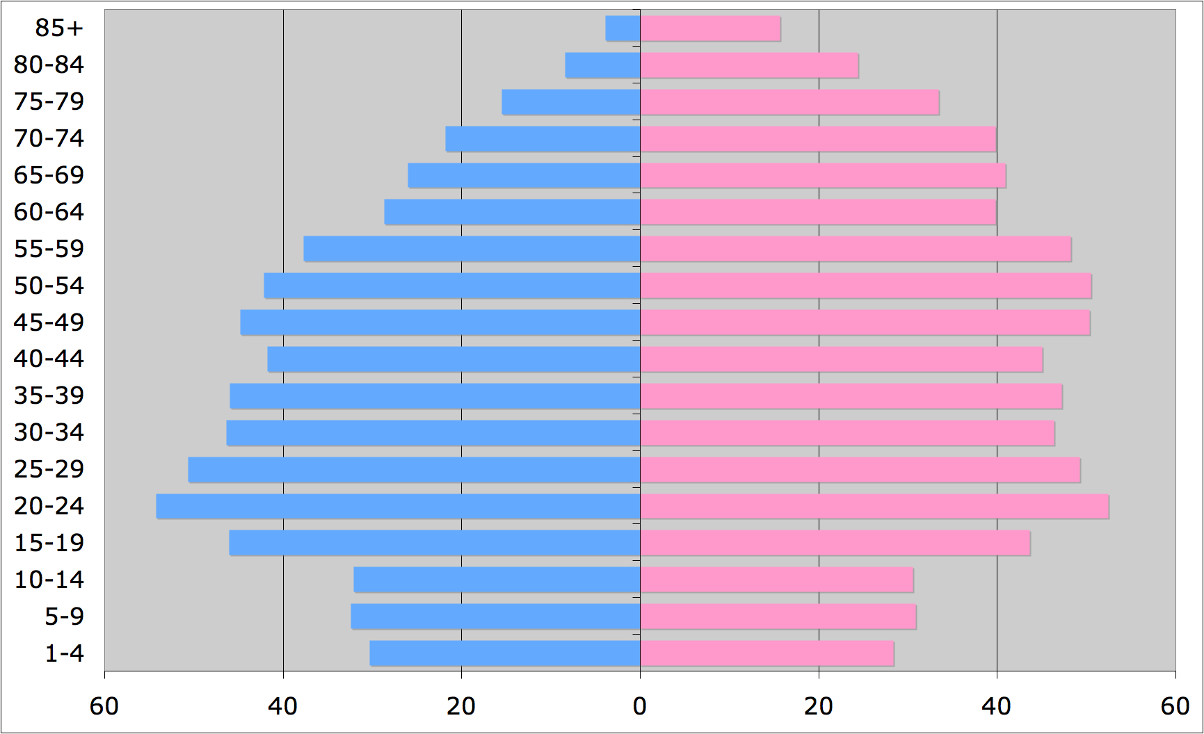 Population pyramid of Estonia (in thousands) from 2009, created in Microsoft Excel. Data is from January 1, 2009 and taken from Statistics Estonia.